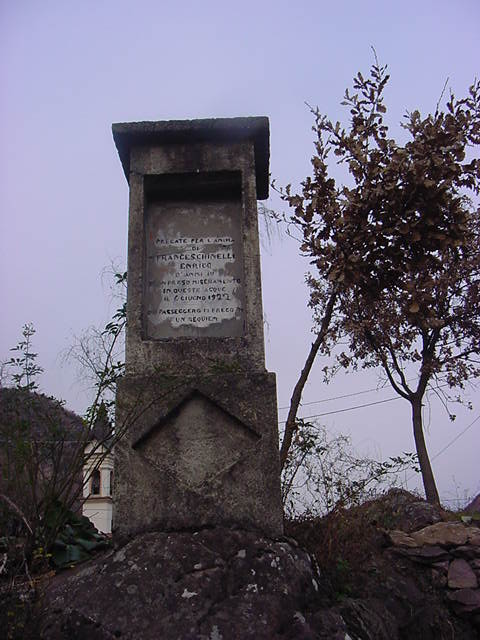 Shrine in Capo di Lago to remember the Soul of a drown person